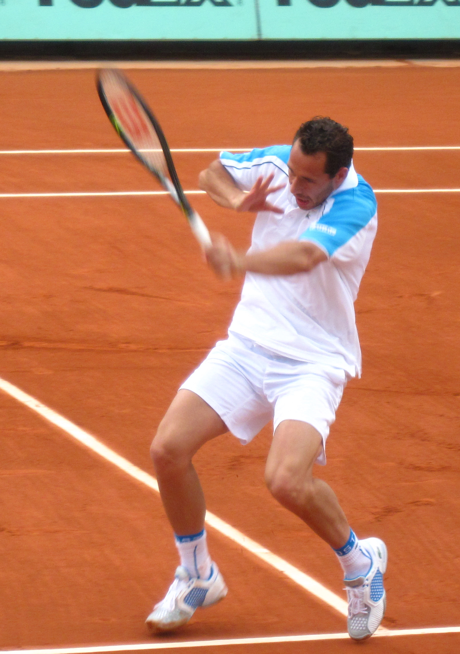 Michaël Llodra at 2009 Roland Garros, Paris, France